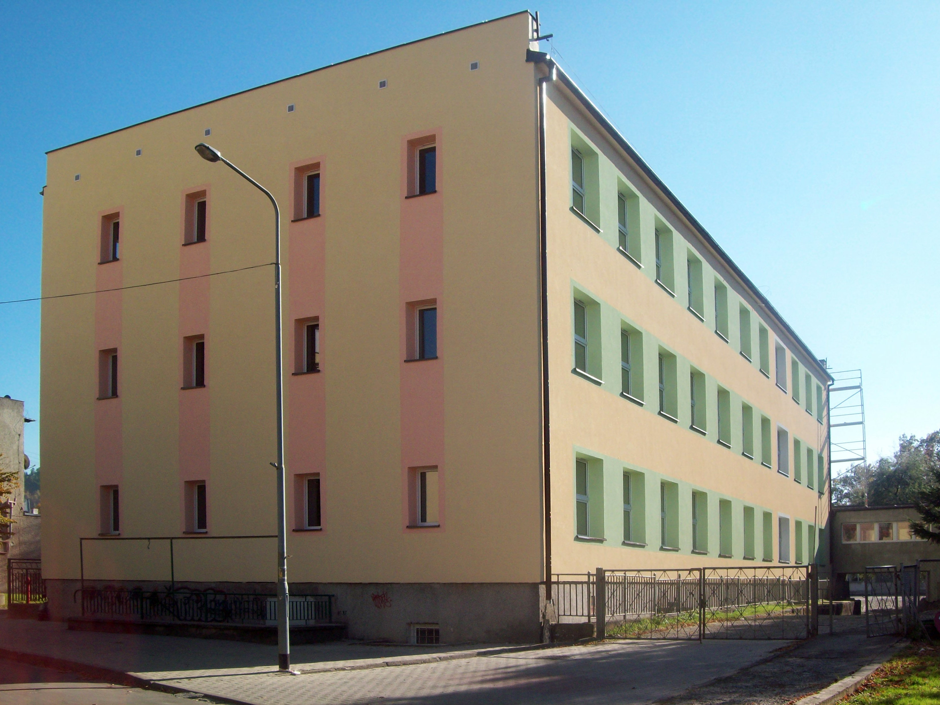 Elementary School in Lądek-Zdrój